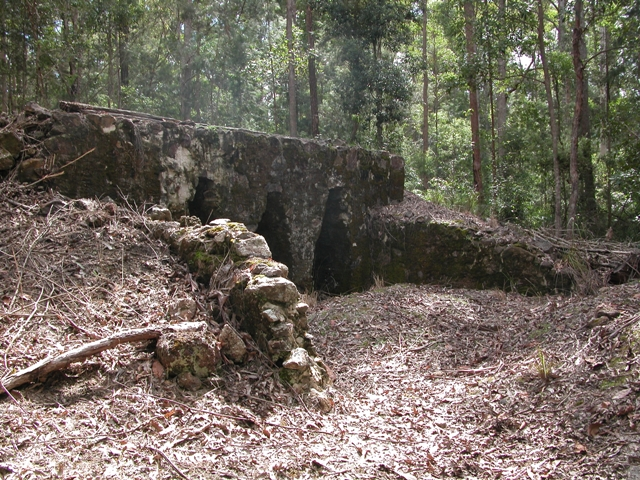 Pipers Creek Lime Kilns: Kiln J